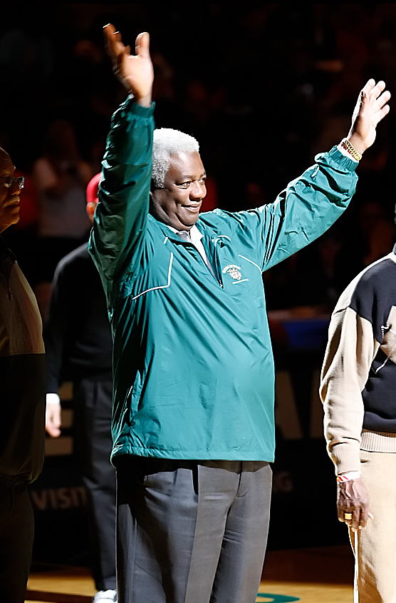 Oscar Robertson was on hand at the Indiana Boys' Basketball State Finals. He was named Indiana's Mr. Basketball in 1956 and attended Crispus Attucks in Indianapolis before moving on to college at UC in Cincinnati.